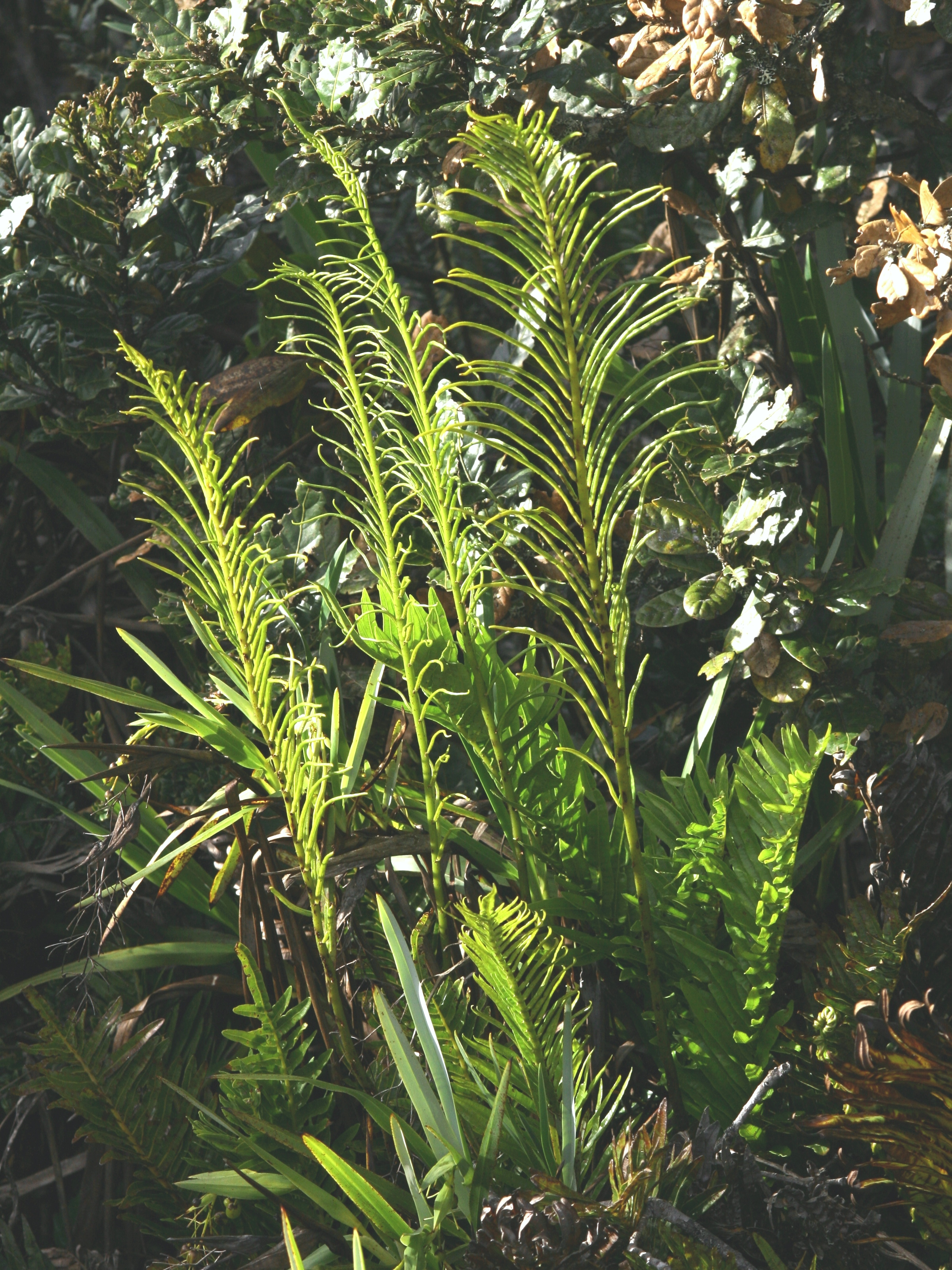 Plagiogyria egenolfioides (syn. P. tuberculata), Gunung Kemiri, n. Sumatra